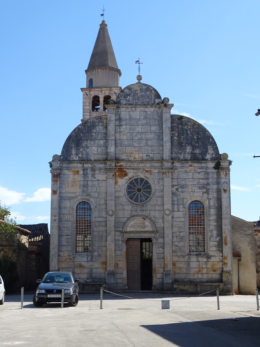 Church of the Annunciation, Svetvinčenat, Croatia